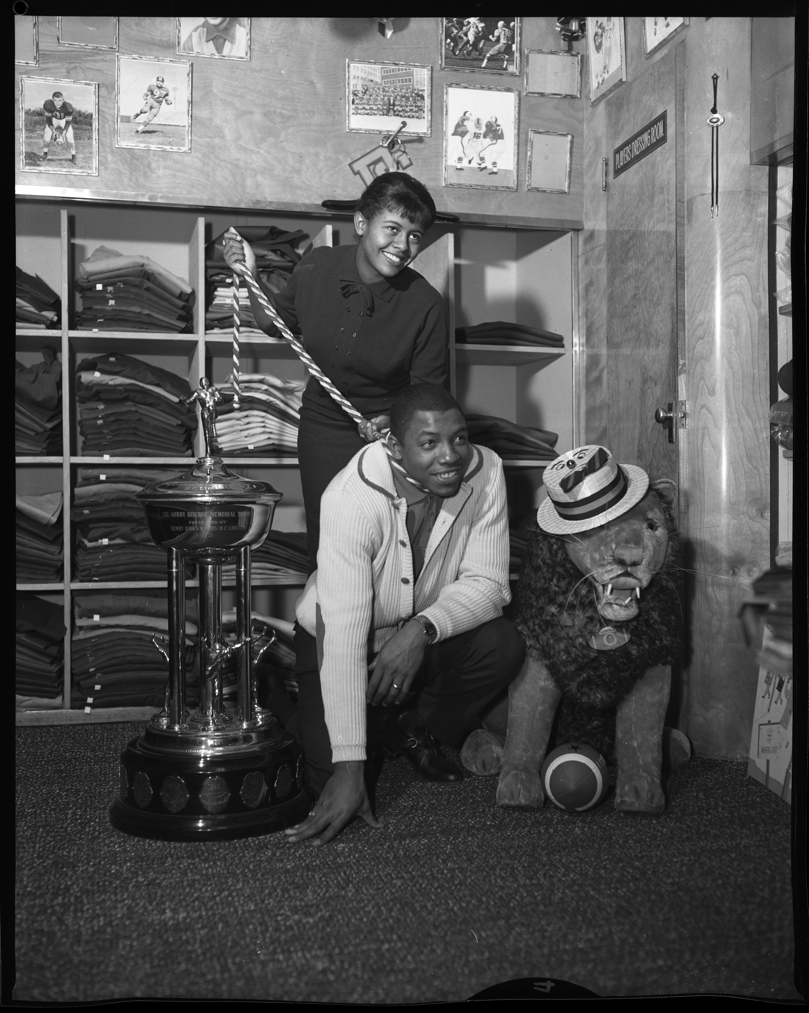 Christmas photo of Arlene and Willie Fleming VPL Accession Number: 60573 Date: December 22, 1960 Photographer/Studio: Province Newspaper Sedawie, Gordon F. Content: Part of a series 60573 - 60573C. The images are similiar so only 60573 has been scanned. Topic: Couples Football players Sports clothes industry Person: Fleming, Willie Organization: B.C. Lions Football Club Location: British Columbia More information on our historical photograph collection